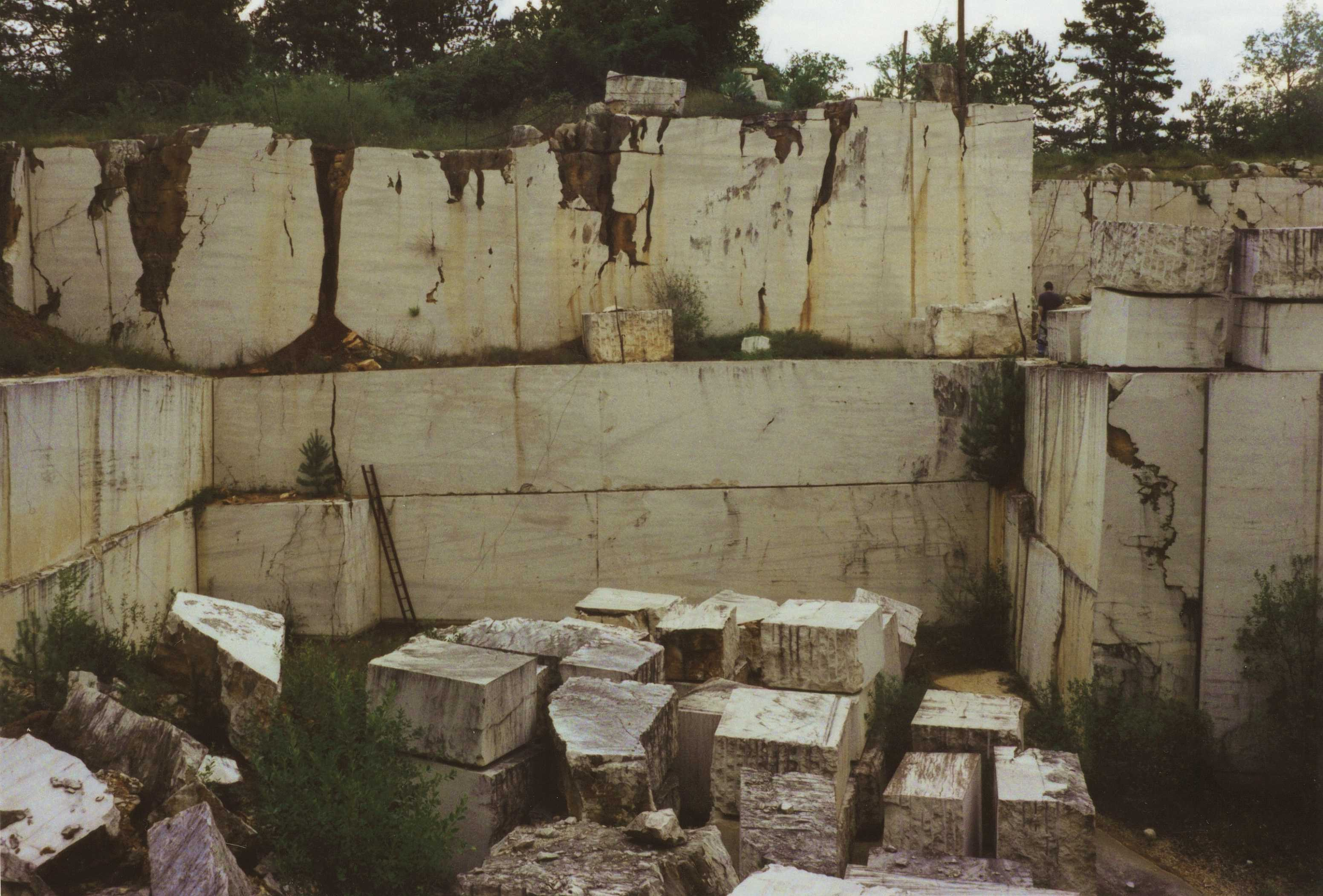 limestone quarry Kornárija (Istria, Croatia)